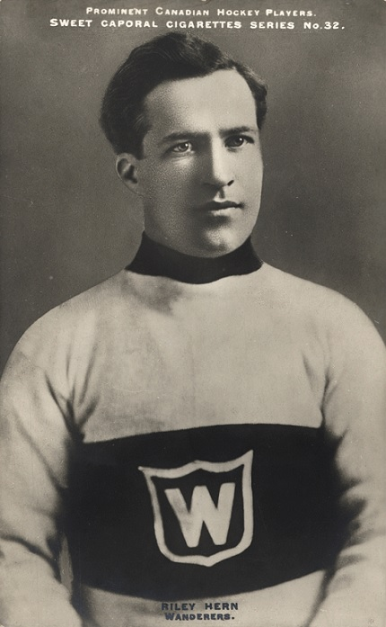 Postcard of hockey player Riley Hern